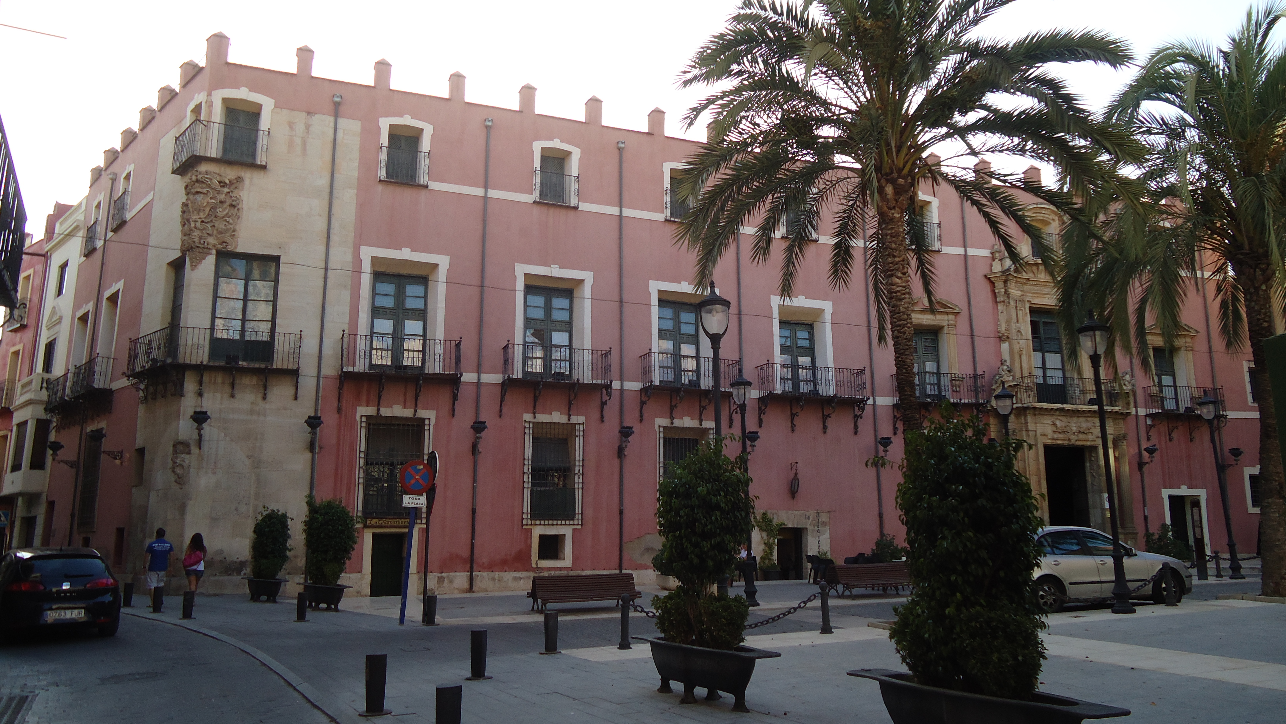 Conde de la Granja Palace, located in Orihuela (Valencian Community, Spain)